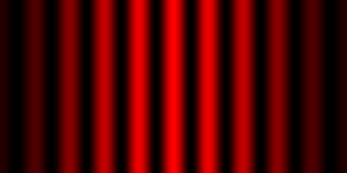 Intensitätsverteilung von (Laser)licht hinter einem Doppelspalt (Computergrafik)